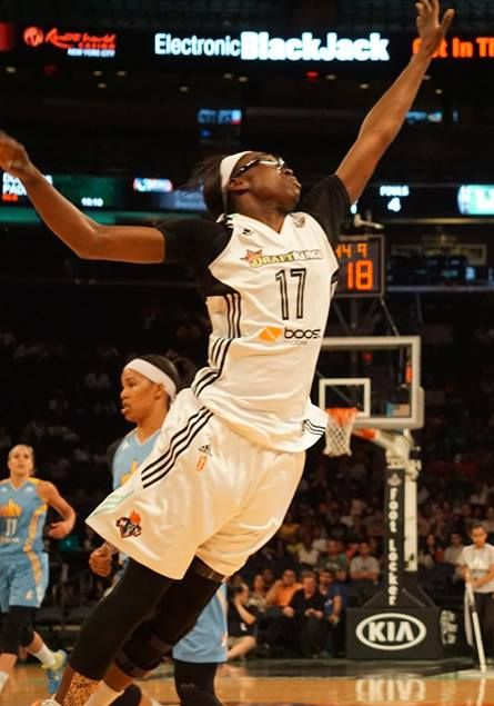 Essence Carson in the 3 September WNBA game between the Sky and the Liberty